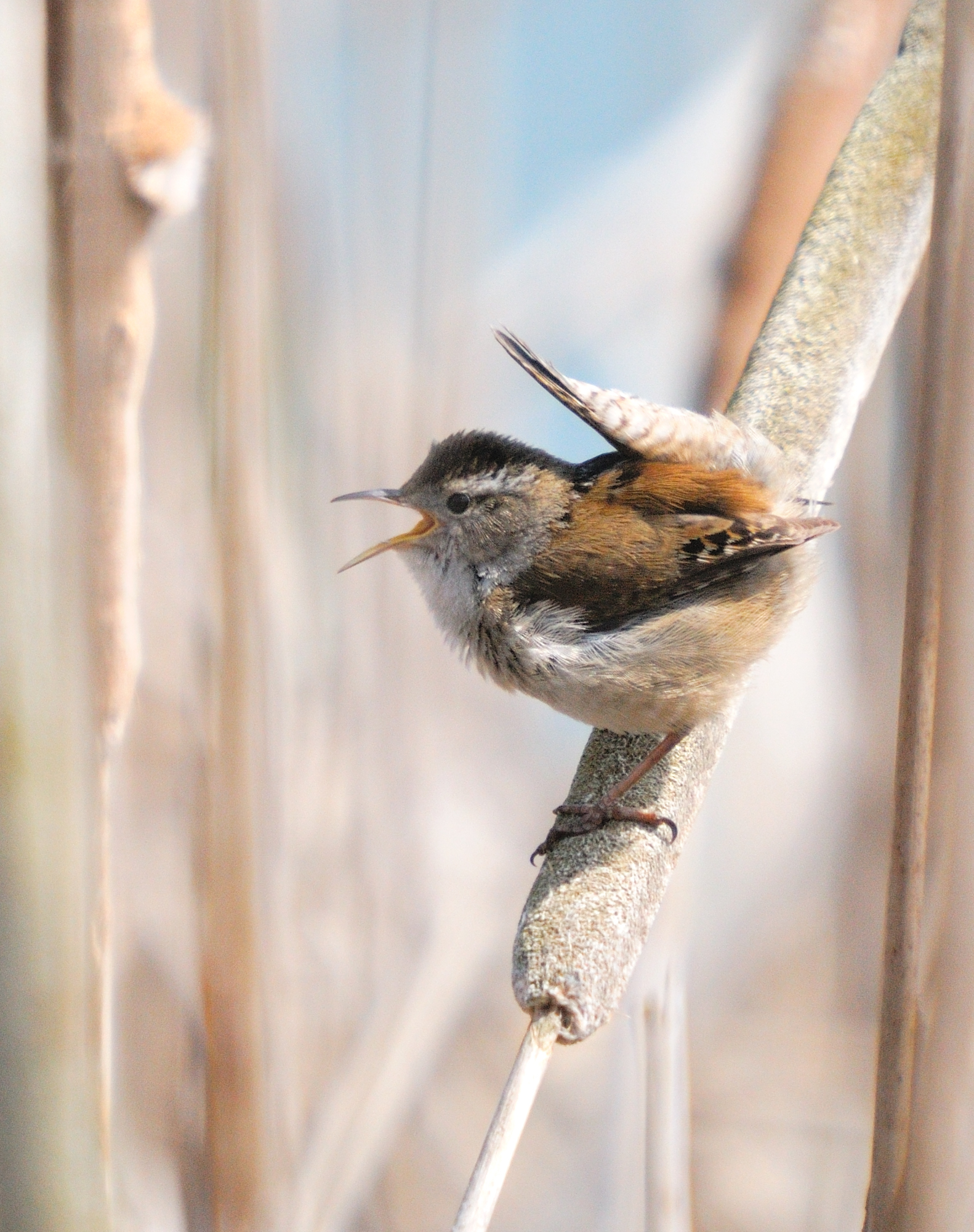 Cistothorus palustris. Iona, British Columbia, Canada.